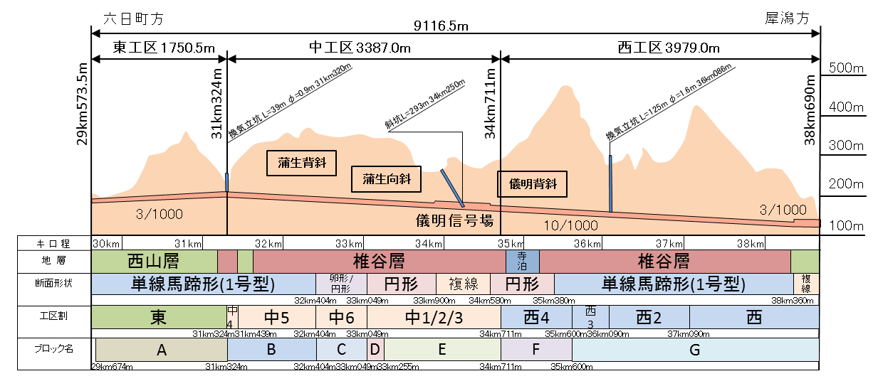 Map showing construction work of Nabetachiyama tunnel, Hokuetsu Express Hokuhoku line.